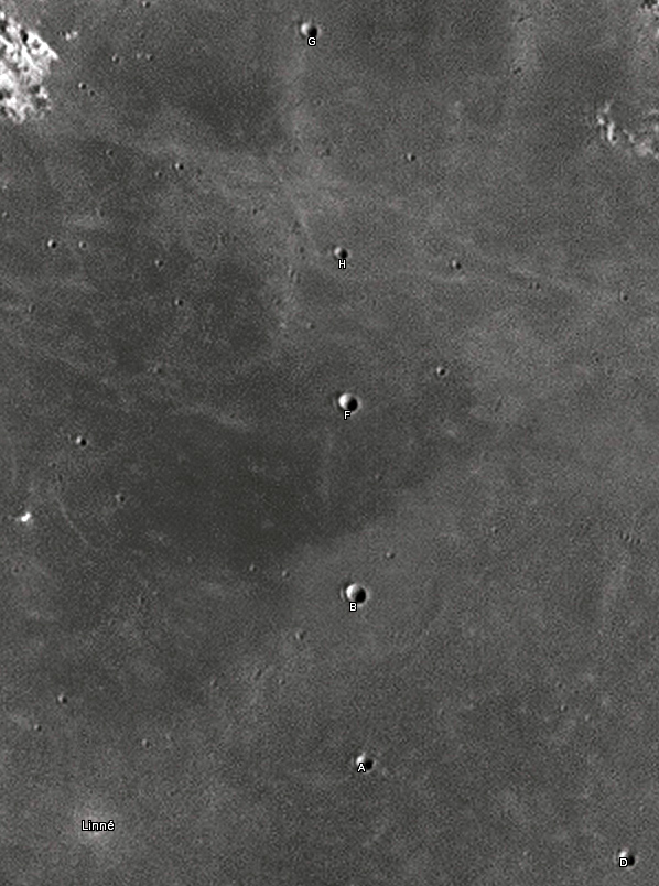 Linne lunar crater as seen from Earth with satellite craters labeled